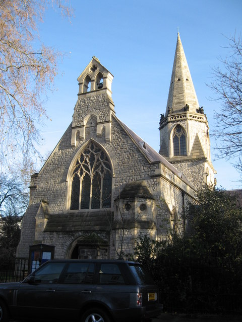 St Mary's parish church, the Boltons, London SW10, seen from the southwest